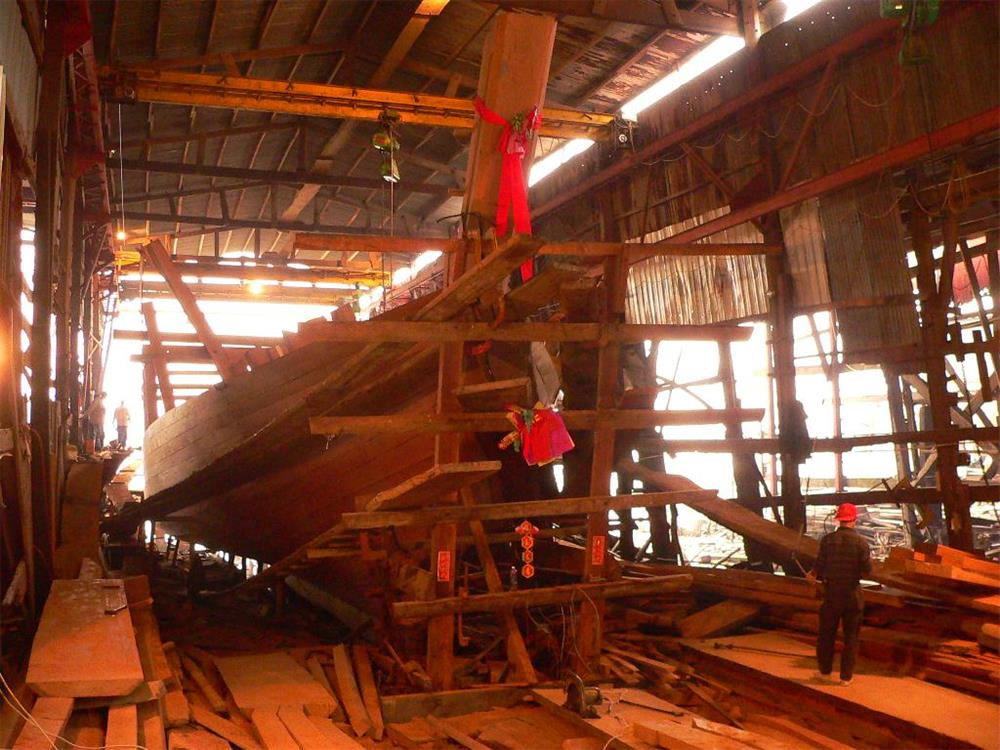 A ship being build in the old Lai Chi Vun Shipyard